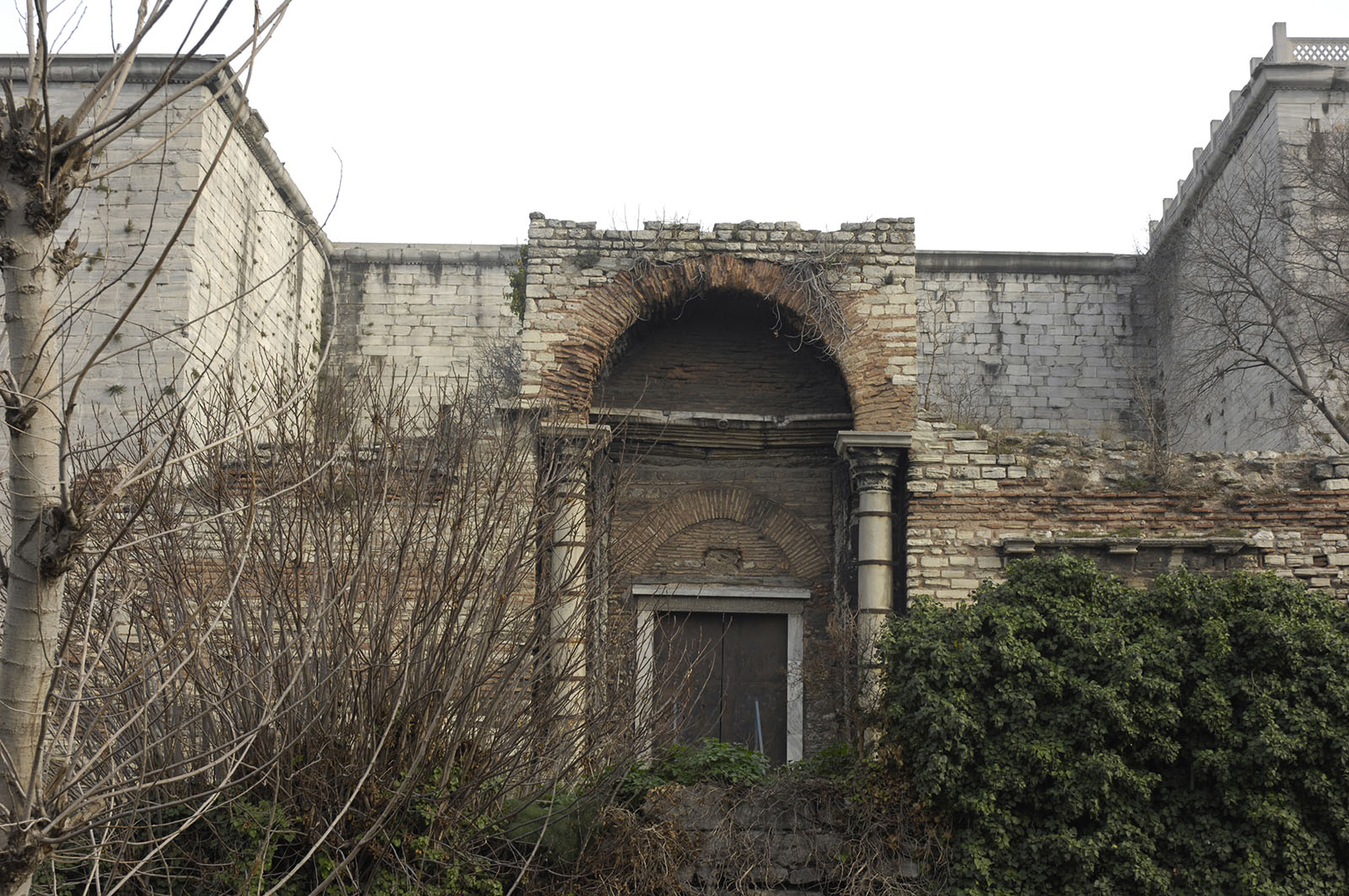 This is a view from outside the fortress, looking towards an arch that stands in front of the Golden Gate.This is a smaller entrance gate, of which Strolling through Istanbul (guidebook) says "When Theodosius II decided to extend the city […], it was presumably in connection with this new wall that he built the small marble gate outside the triumphal arch…”. This is that gate. Behind it we see on either side one of the pylons that one can enter during a visit to the fortress, walking on the roof towards the other pylon, and thus in the middle being above the spot of the Golden Gate.